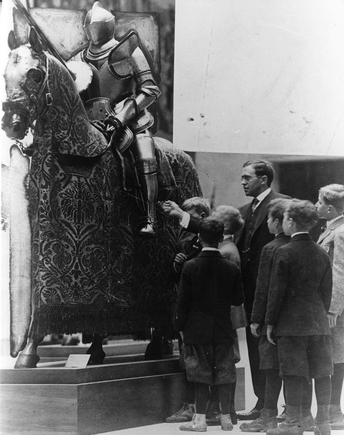 Frederic Allen Whiting opening of the Cleveland Museum of Art to the public on June 7, 1916. University school 4th grade.